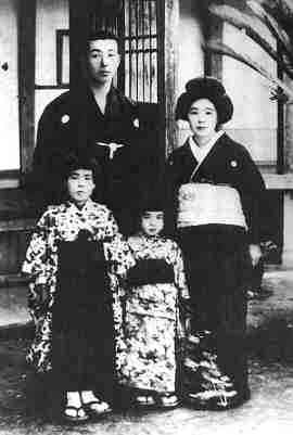 "Kamikaze mom" Tome Torihama with her husband and daughters